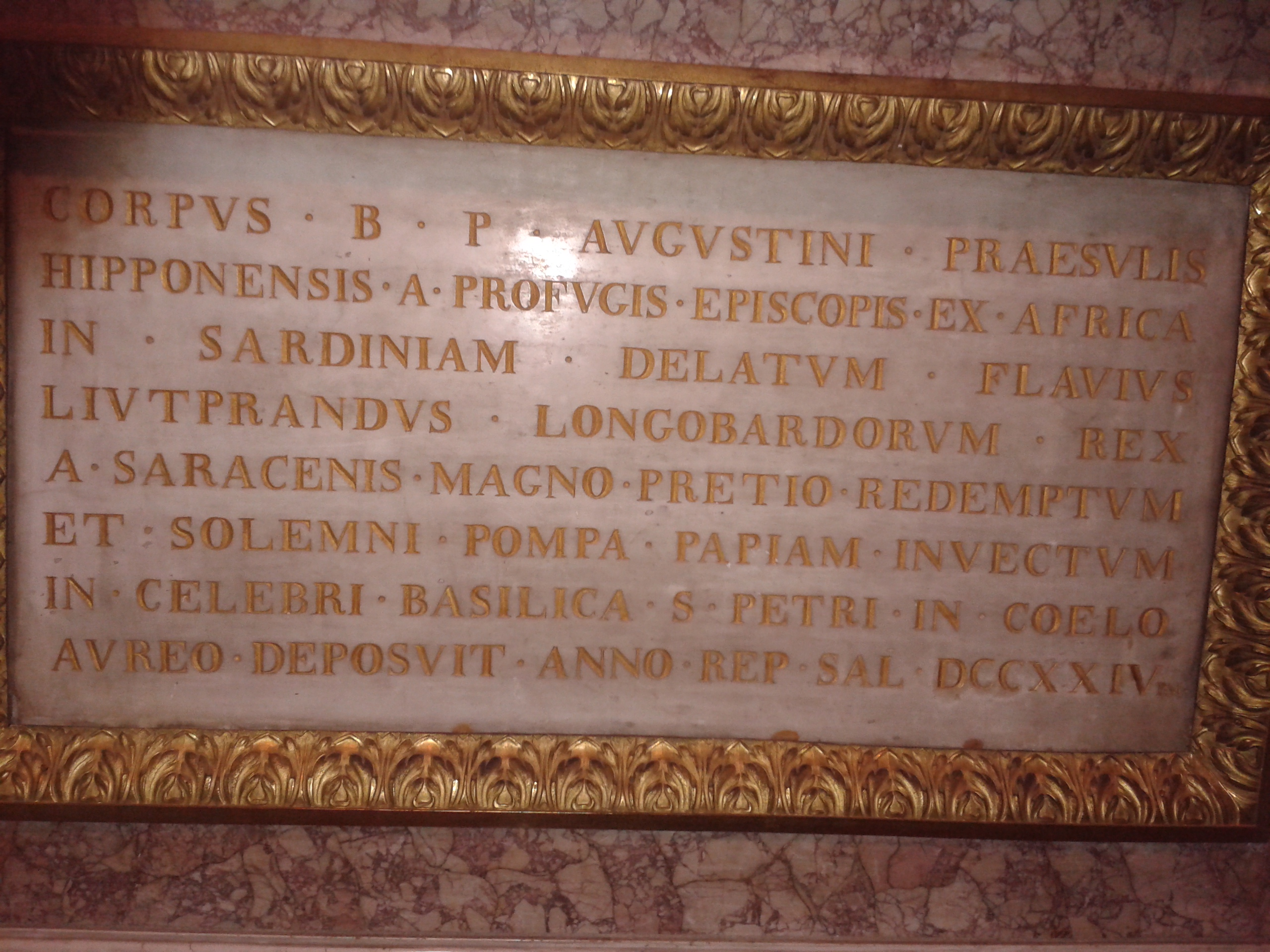 Inscription at the tomb of St Augustine explaining how the relics of the Saint arrived from Hippo via Sardinia to Pavia in AD 724, thanks to the king of Longobards, Flavius Liutprand.